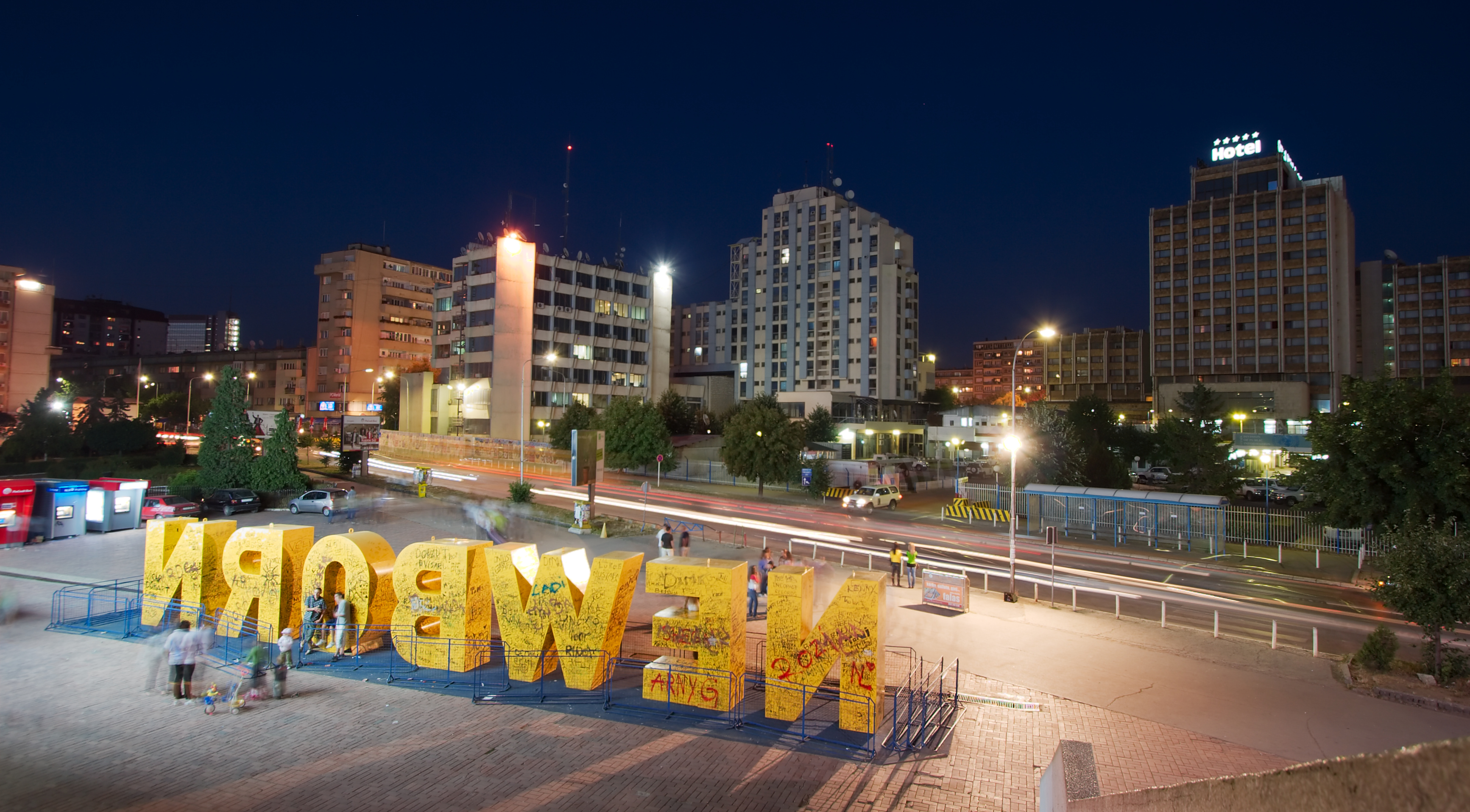 New Born sign in Pristina Kosovo.